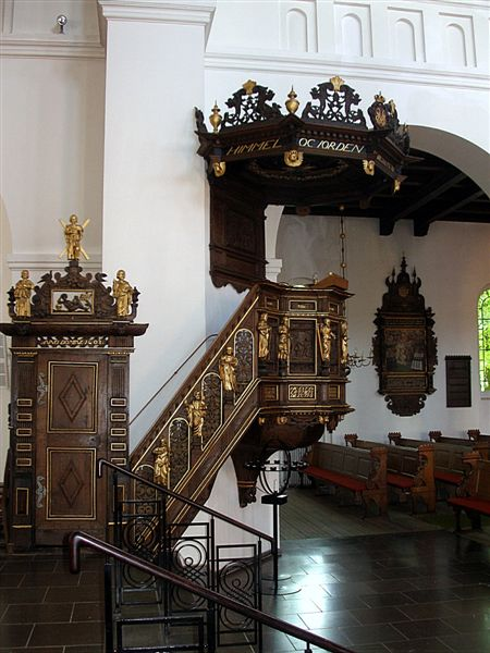 Vor Frue Church in Aalborg Kommune, Denmark. Arch.Johannes Emil Gnudtzmann. Pulpit by a local craftsman given to the church in 1581.